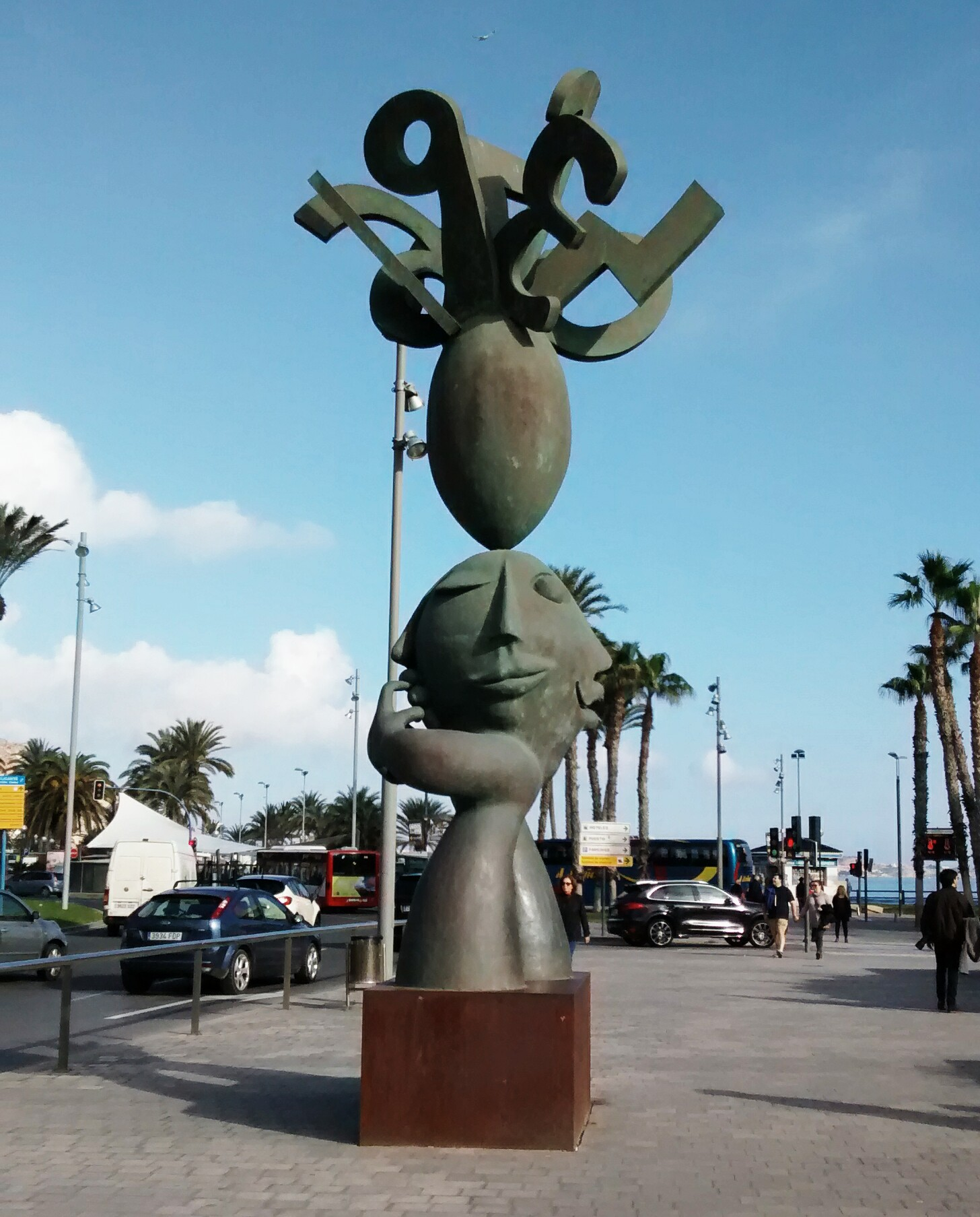 Urban sculpture in Alicante.